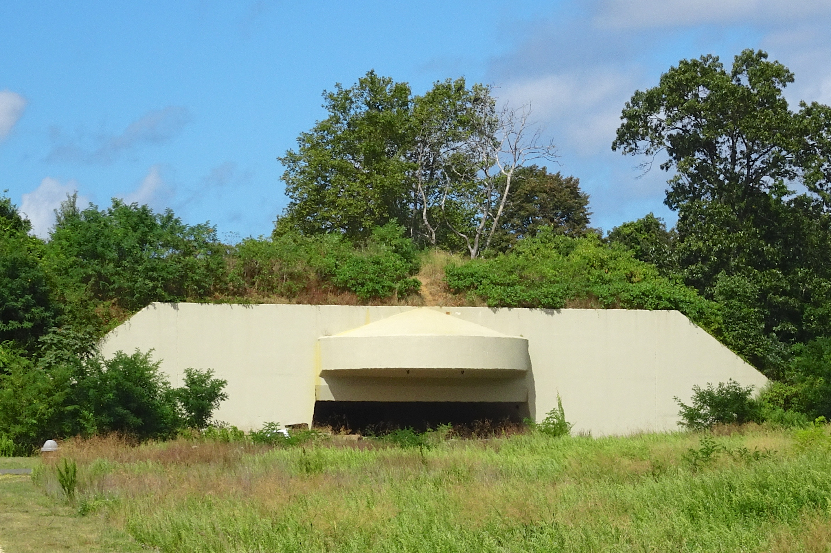 Casemate front at Battery Lewis in the Navesink Military Reservation.